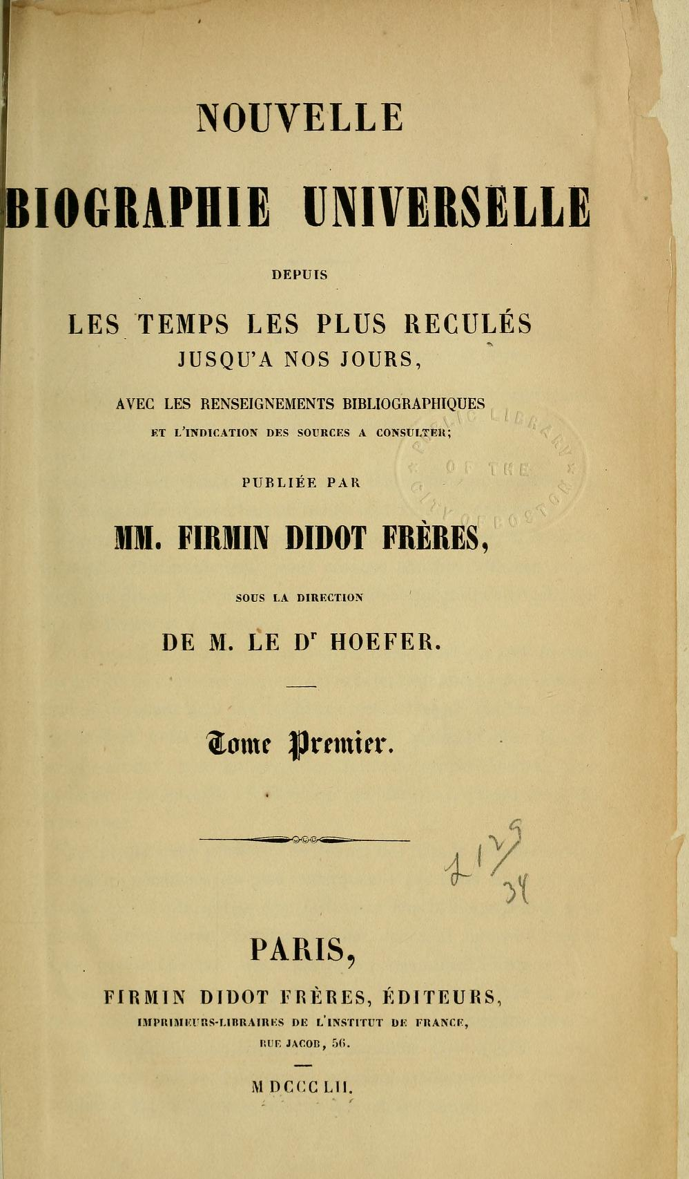 Title page of the first volume of the Nouvelle Biographie Universelle (later title: Nouvelle Biographie Générale), edited by Ferdinand Hoefer, published in Paris in 1852 by Firmin Didot Frères